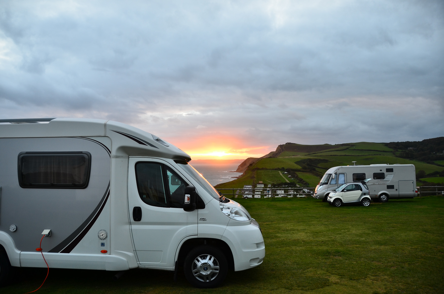 A Swift Bolero motorhome parked on the Dorset coast (Jurassic coast) at sunset.